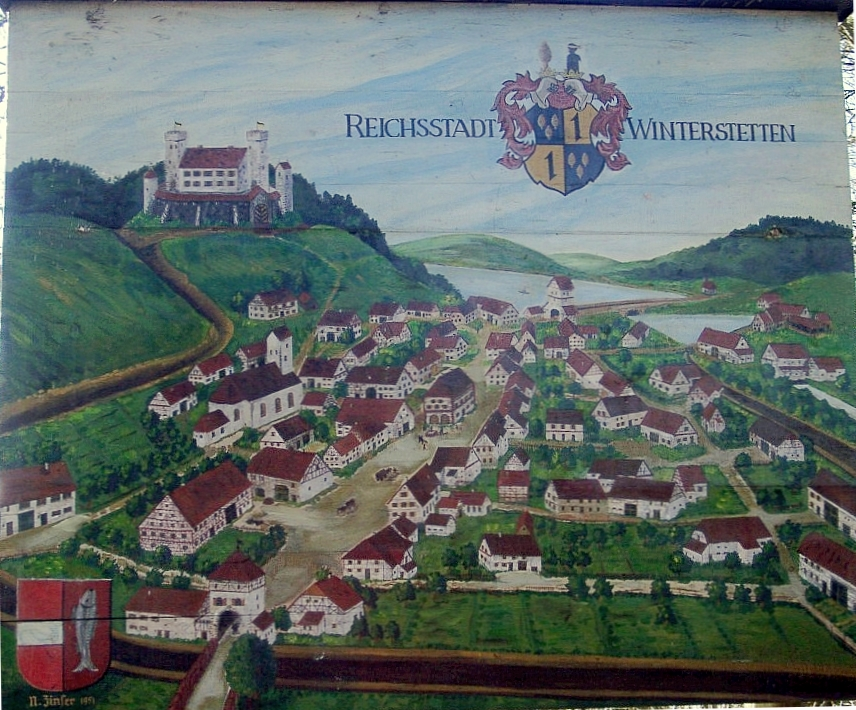 Board at the (motte?) of the Schenkenburg Winterstettenstadt